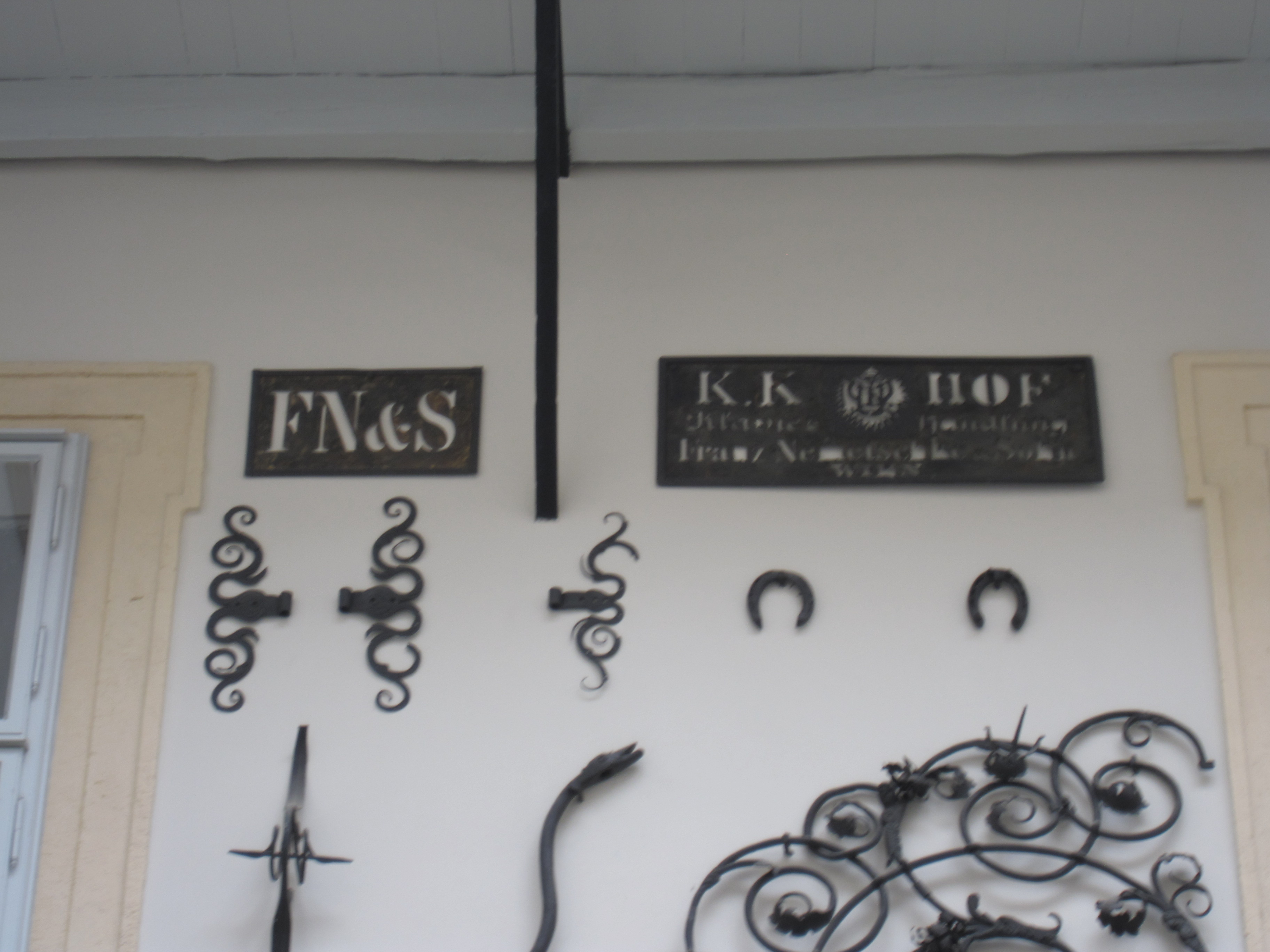 Remains of the store of Franz Nemetschke & Sohn, at the house Bäckerstraße 7 in Vienna's I. district.